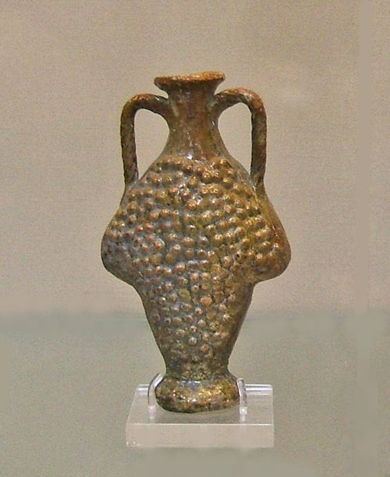 A lead-glazed pottery flask, mold-made in the form of a bunch of grapes. From Syria, 1st century AD. Ht.14 cm. British Museum, London. GR Dept., 1924.5-12.1